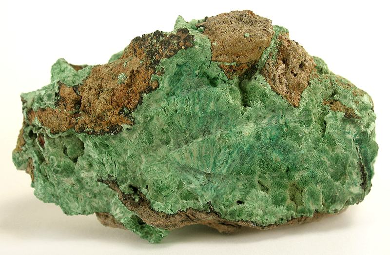 Glaukosphaerite Locality: Kasompi Mine (Menda Mine; Kasompi Hill), Swambo, Central area, Katanga Copper Crescent, Katanga (Shaba), Democratic Republic of Congo (Zaïre) (Locality at ) Size: small cabinet, 6.2 x 3.6 x 2.6 cm Glaukosphaerite Kasompiite, as shown on the accompanying label, was the old name given to material from this mine now known to be the already named mineral species Glaukosphaerite. This is a rare copper-nickel carbonate, and few deposits produce beautiful examples. This is a large, attractive, velvety looking specimen rich with mattes of the mineral on gangue matrix. It has a noticeable bit too much heft for malachite. But, it looks like velvety malachite on first glance. Ex. John White Collection.